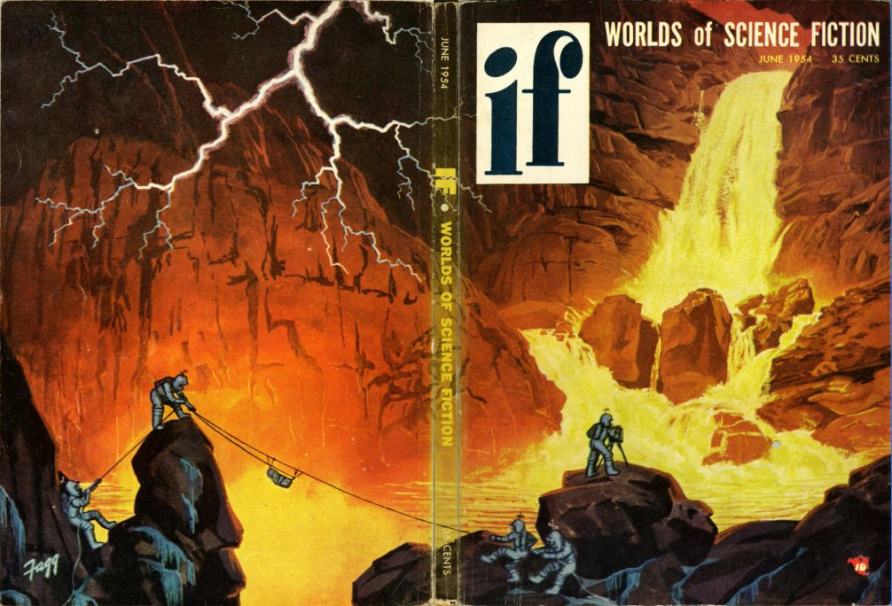 The cover, spine, and back cover of If, June 1954 issue. The cover is by Ken Fagg and is titled "Lava Falls on Mercury". Scanned from a copy. Since the magazine was published in the U.S. before 1964, the original copyright lasted 27 years from the end of the year of publication. The copyright holder was free to renew the copyright any time during the year 1978, but they did not do so. (All copyright renewals since 1977 are on file at the United States Copyright Office, and can be searched online.